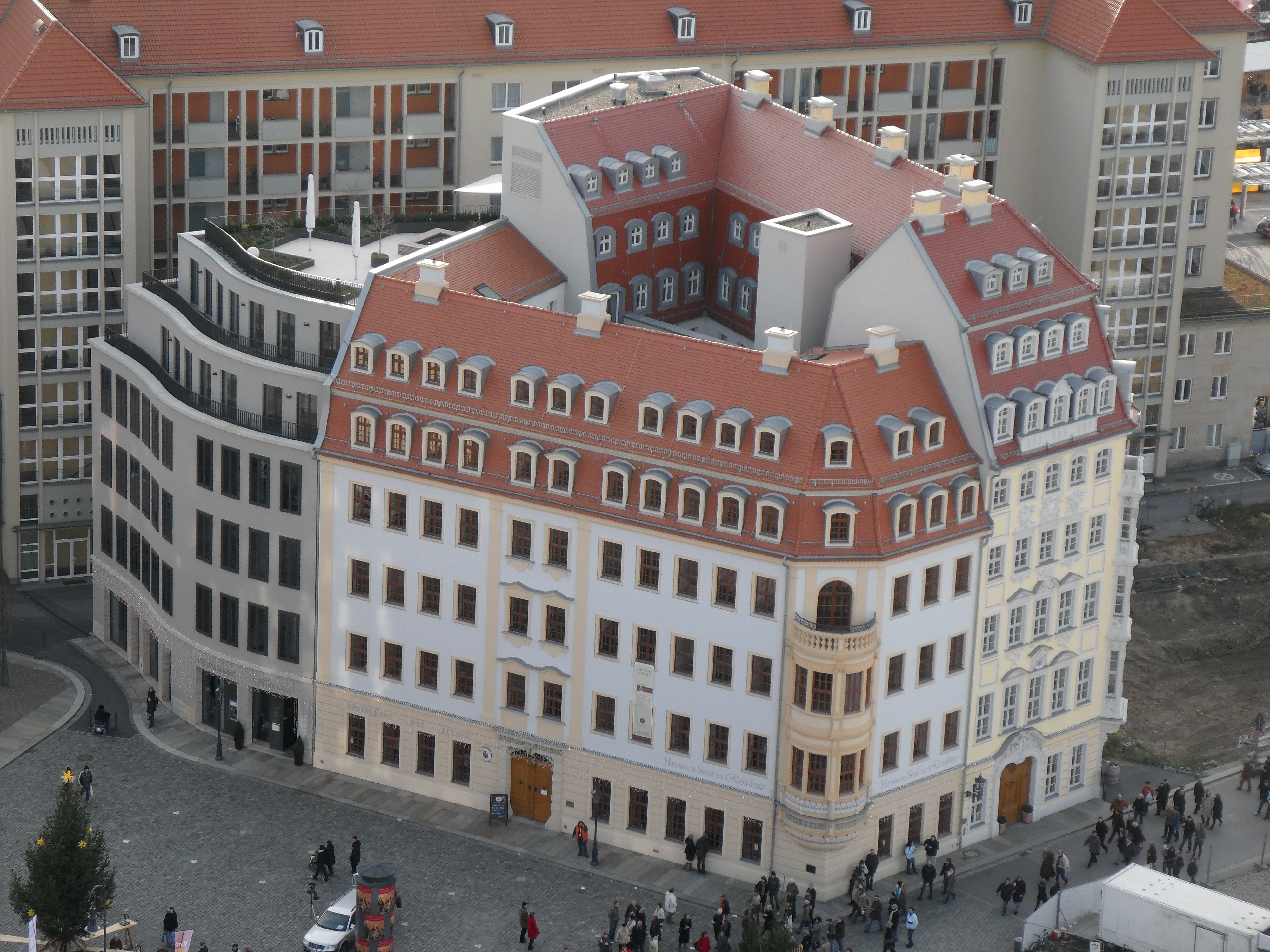 Quarter V of Neumarkt (Dresden) showing the two houses Neumarkt 12 ("Heinrich Schütz House", front), which hosts the honorary consulates of Ecuador and Spain, and Frauenstraße 14 ("Köhler House", right), overview from Frauenkirche